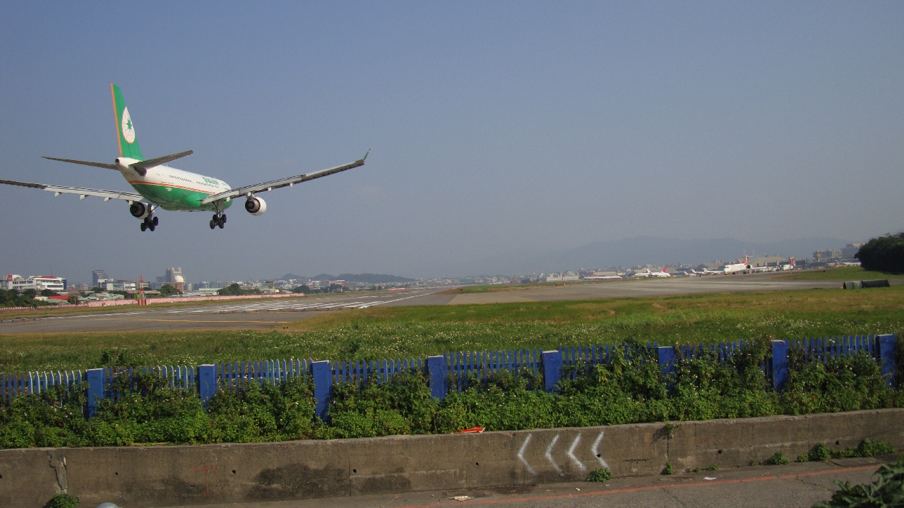 EVA AIR AIRBUS A330-200 READY TO LAND IN RCSS RWY 10.